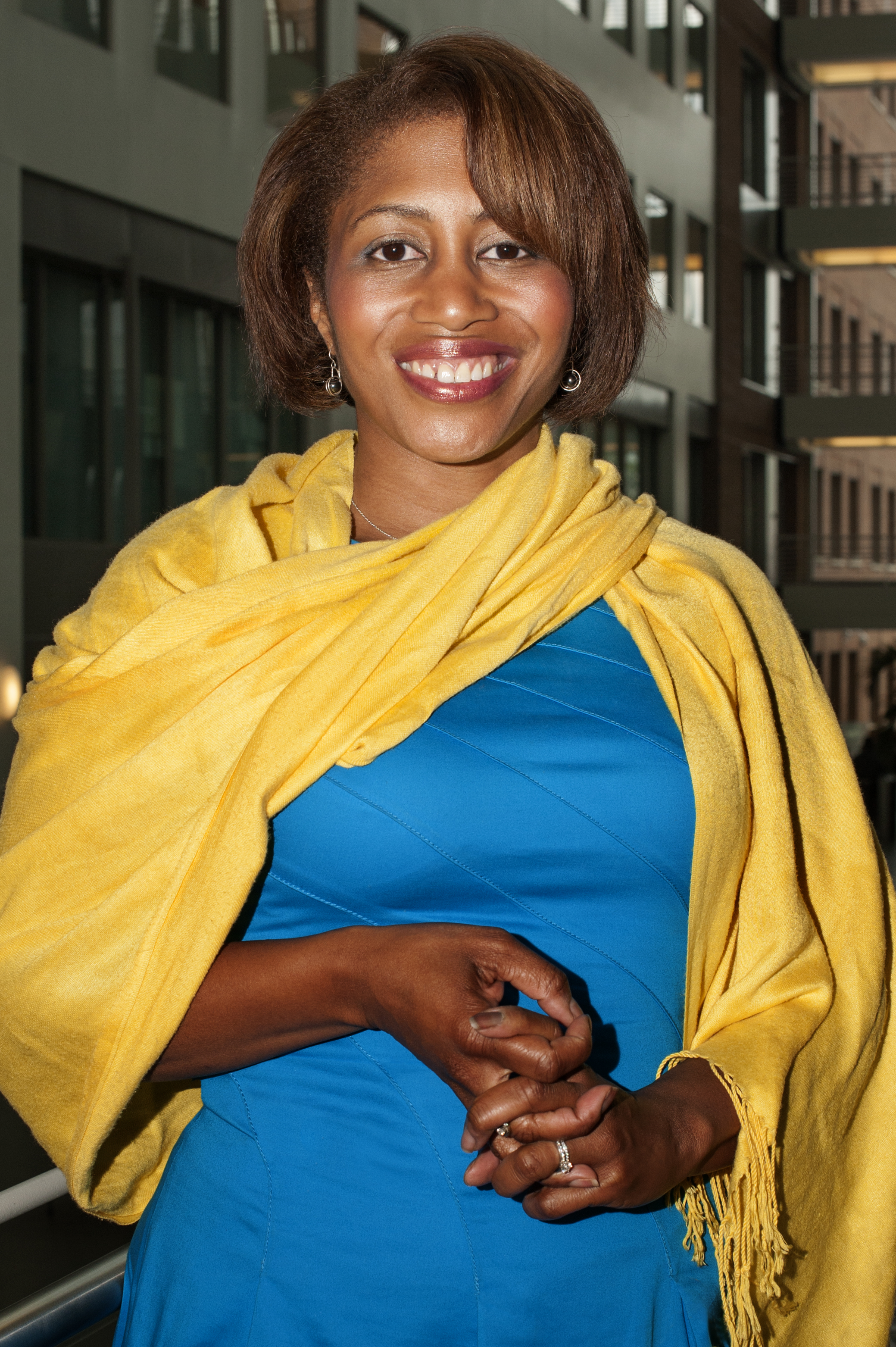 Michelle McMurry-Heath, M.D., Ph.D., is the Associate Director for Science at the FDA’s Center for Devices and Radiological Health, and a contributor to FDA Voice. This photo is free of all copyright restrictions and available for use and redistribution without permission. Credit to the U.S. Food and Drug Administration is appreciated but not required. For more privacy and use information visit: FDA photo by Michael J. Ermarth